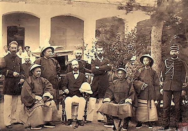 Li Hongzhang and Jules Patenotre after signing the Li-Patenotre Treaty, also known as the Treaty of Tientsin (1885).